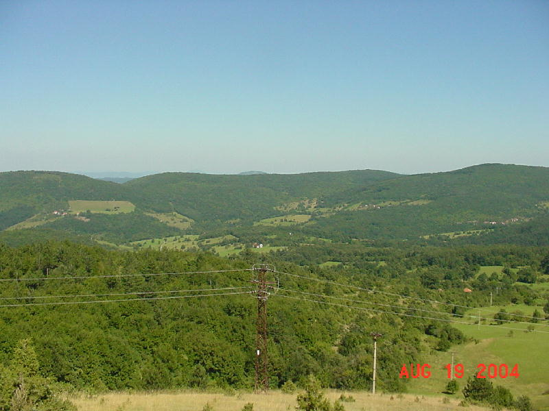 Golovo, near Čajetina, Serbia